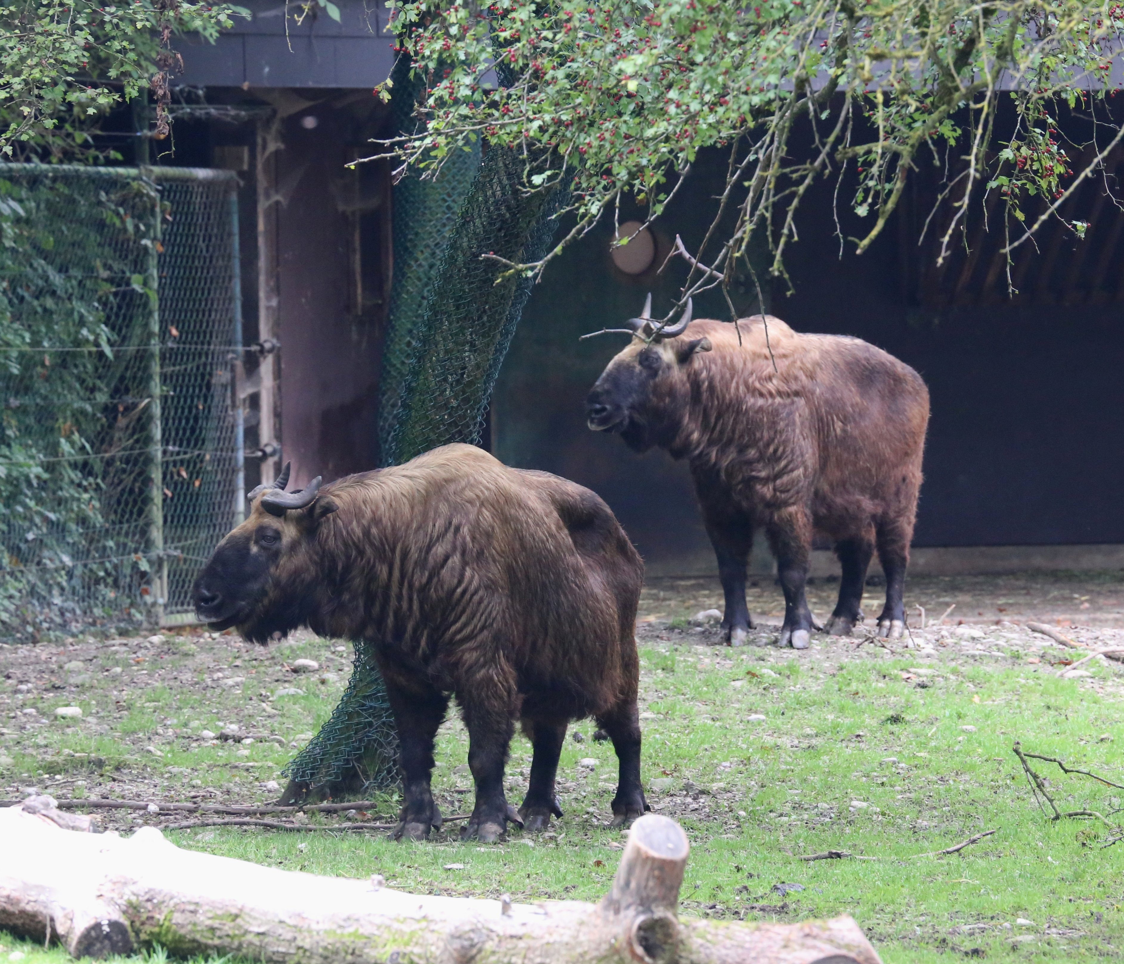 Tierpark Hellabrunn, Takin, Budorcas taxicolor